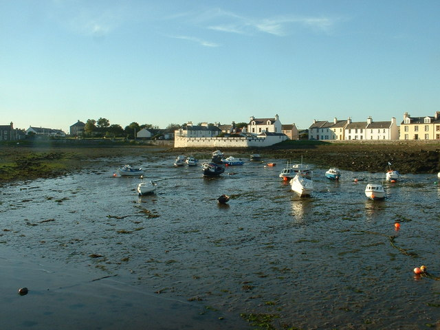 Isle of Whithorn Harbour. Looking north east, at low tide.